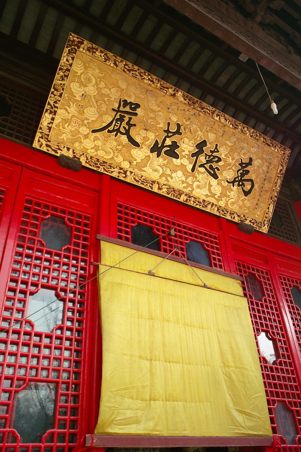 Wandezhuangyan, by Zhao Puchu, Qixia Temple, Nanjing, China